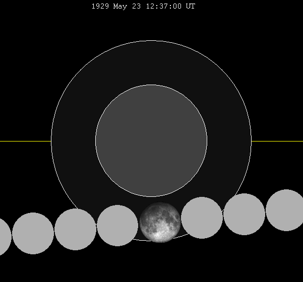 =lunar eclipse chart of moon's path through the earth's shadow. thumb